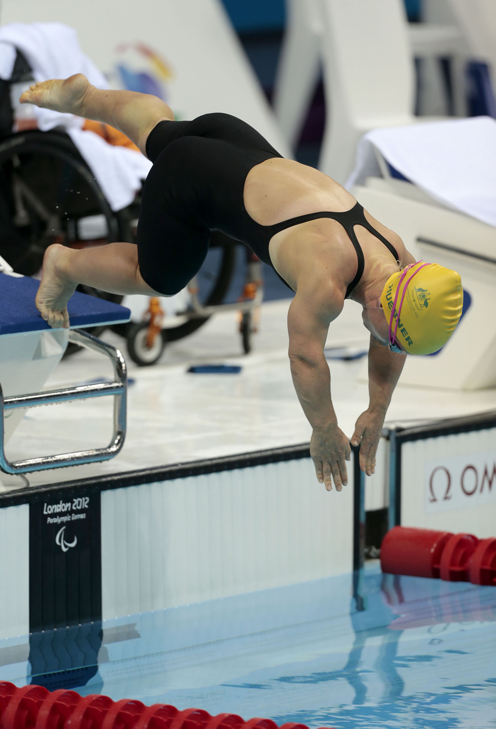 Photograph of Australian Paralympic team member Tanya Huebner at the 2012 Summer Paralympic Games in London